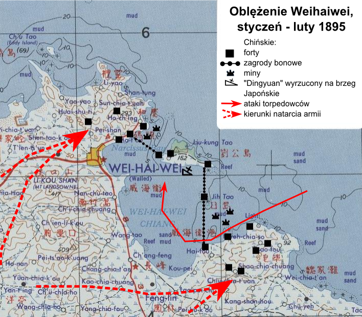 Battle of Weihaiwei map, 1895, Polish version